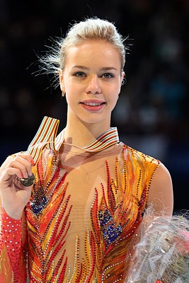 Anna Pogorilaya at the 2015 European Championships - Awarding ceremony